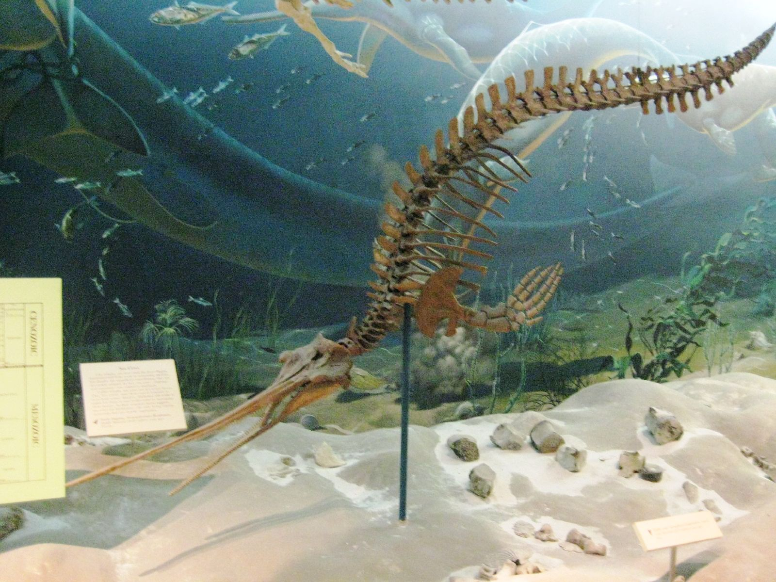 Xiphiacetus bossi, a member of an extinct group of dolphins with overhanging jaws, found in 14 million year old sediments at Calvert Cliffs, Maryland